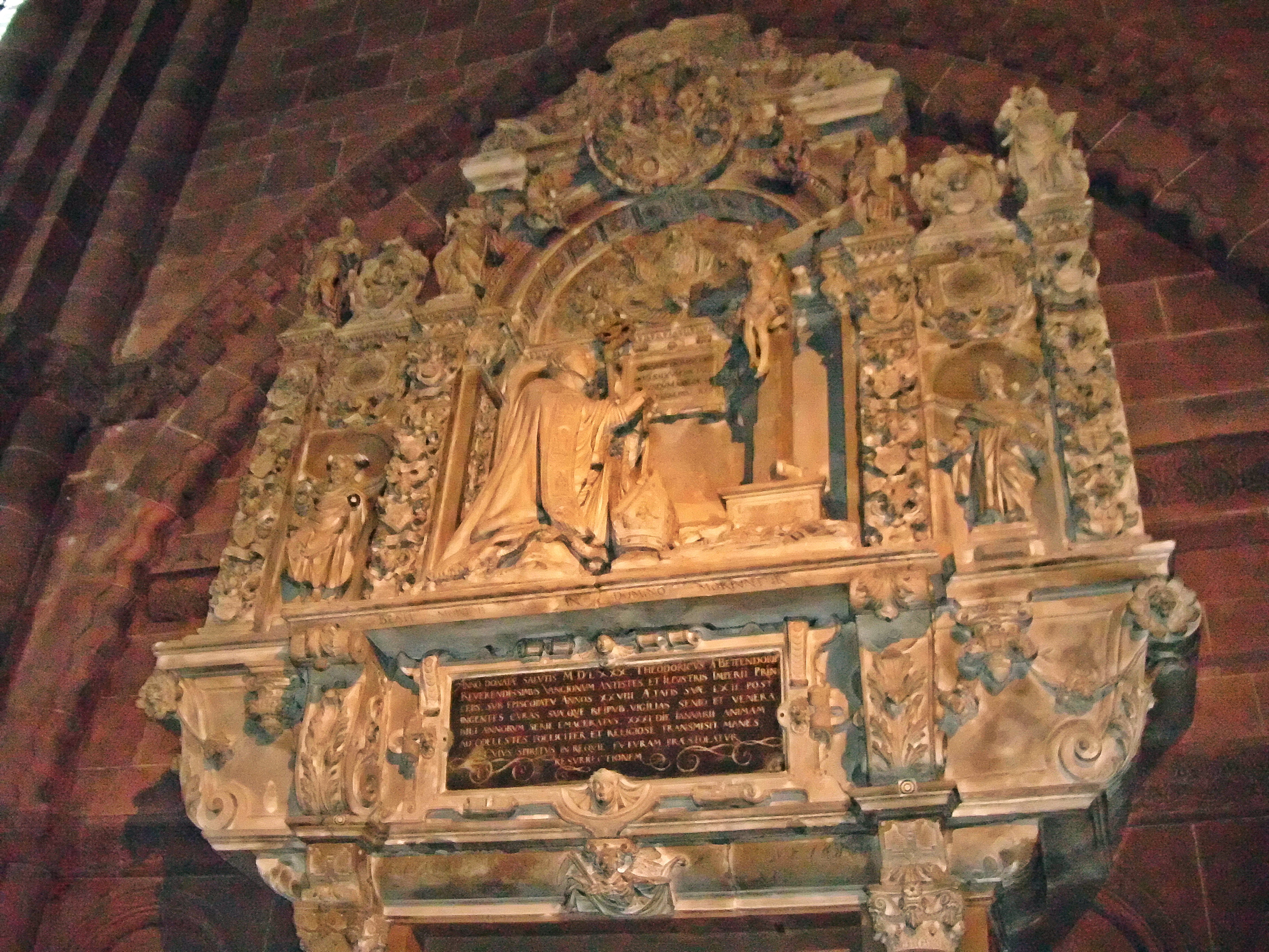 Grabmal Bischof Dietrich von Bettendorf (1518-1580), Wormser Dom